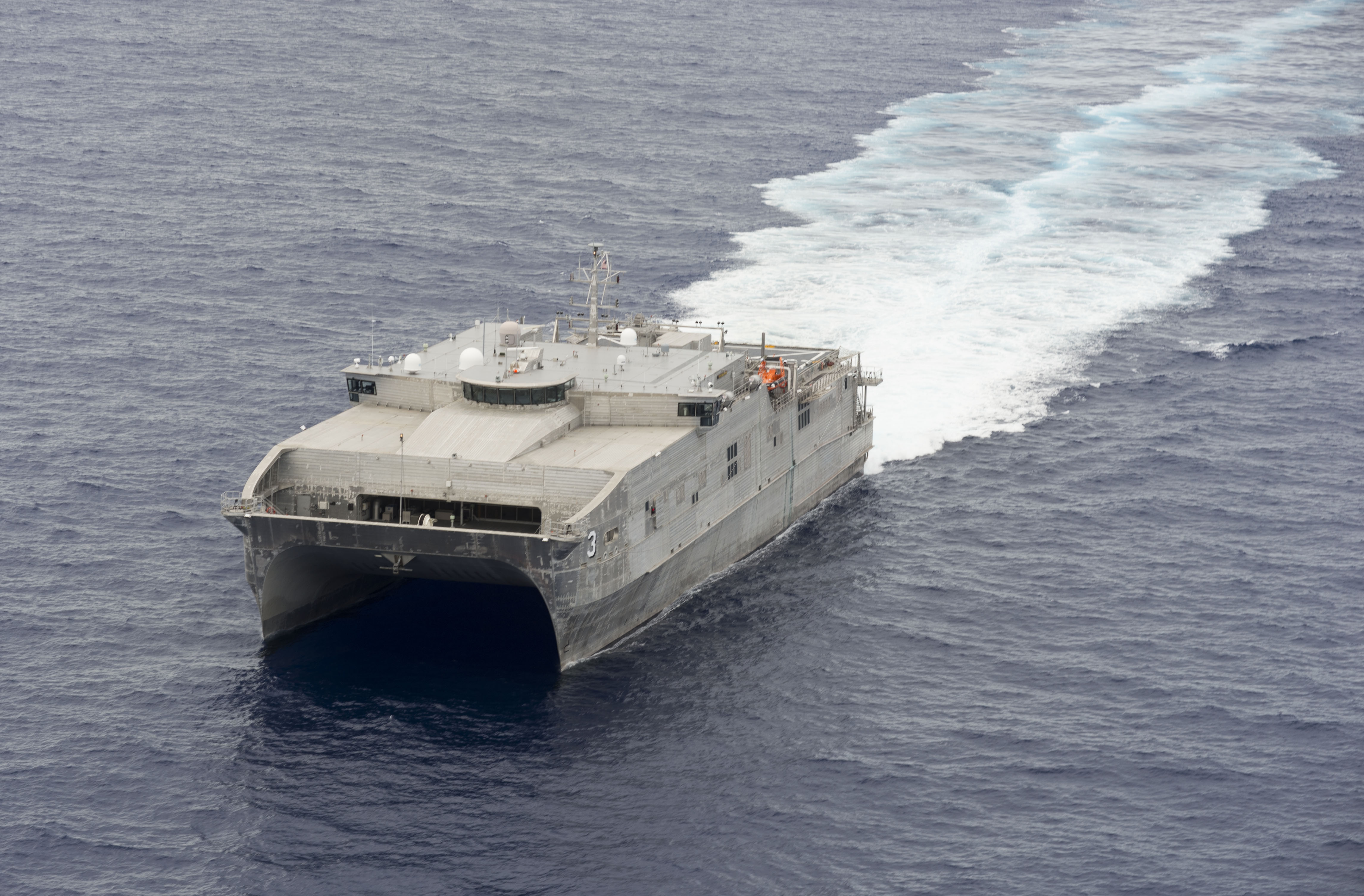 The U.S. Military Sealift Command joint high-speed vessel USNS Millinocket (JHSV-3) is underway in the "Pacific Ocean for Pacific Partnership 2015". 2015 in its tenth iteration, Pacific Partnership is the largest annual multilateral humanitarian assistance and disaster relief preparedness mission conducted in the Indo-Asia-Pacific region. While training for crisis conditions, Pacific Partnership missions have provided medical care to approximately 270,000 patients and veterinary services to more than 38,000 animals. Additionally, Pacific Partnership has provided critical infrastructure development to host nations through the completion of more than 180 engineering projects.